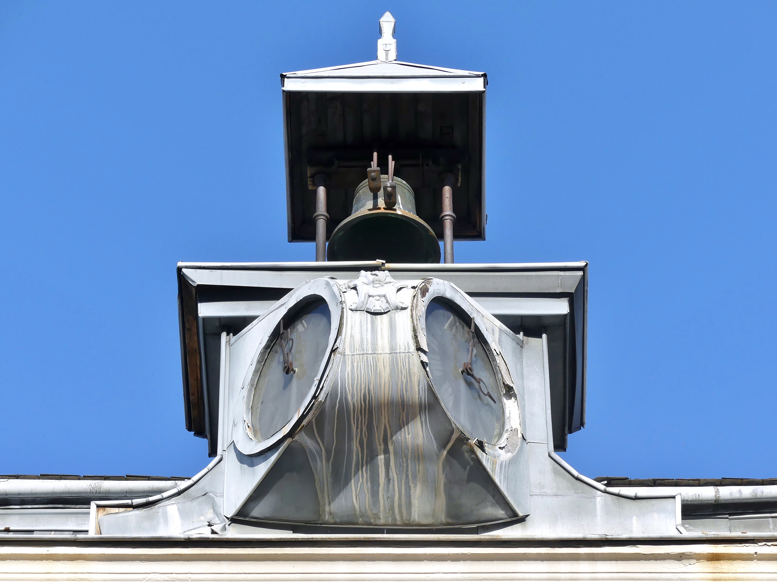 Sight of the clock and bell tower at the top of the Hôtel Nicolle de La Place building, in Montmélian, Savoie, France.